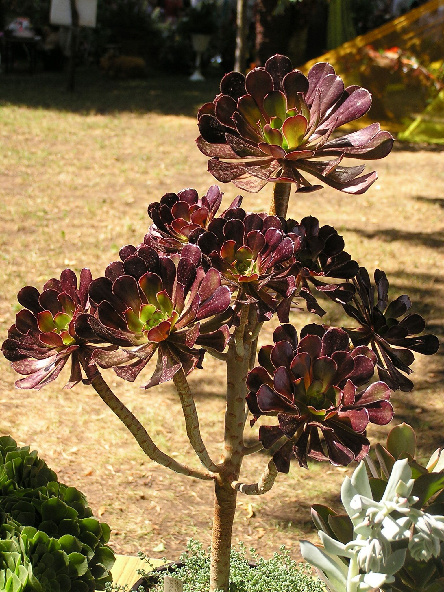 Plant